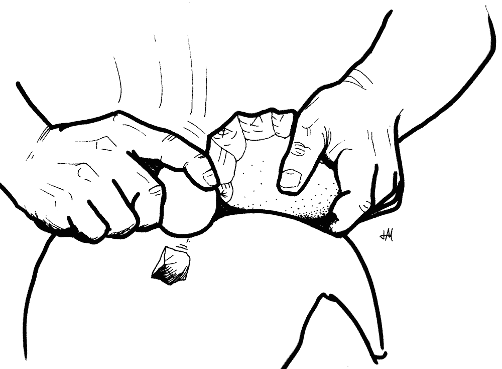 Hypotethic reconstruction of flintknapping with hard hammer (hammerstone)